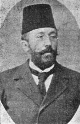 Armenian writer Melkon Gurdjian